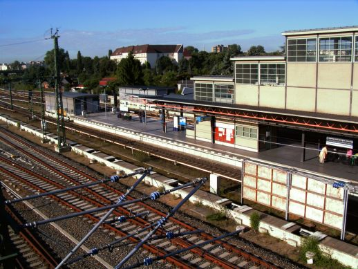 Station Bornholmer Straße of Berlin S-Bahn